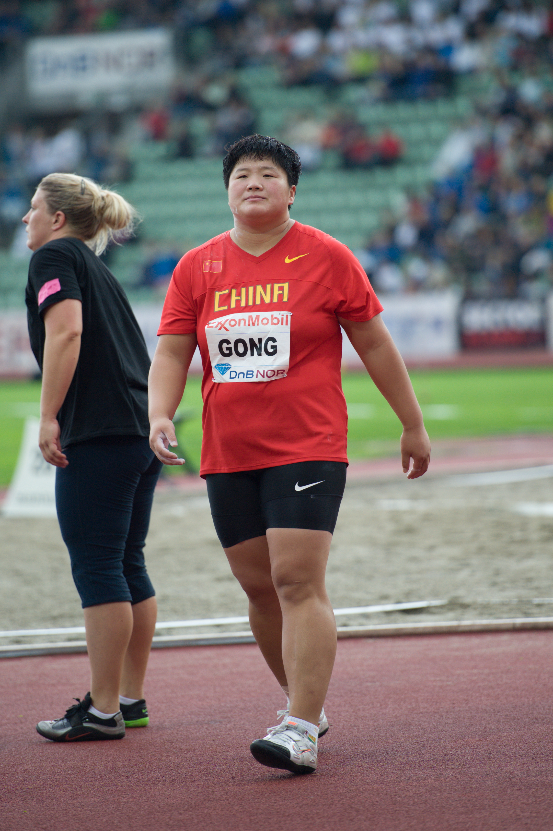 The Chineese athlete Gong Lijiao at bislet Games 2011